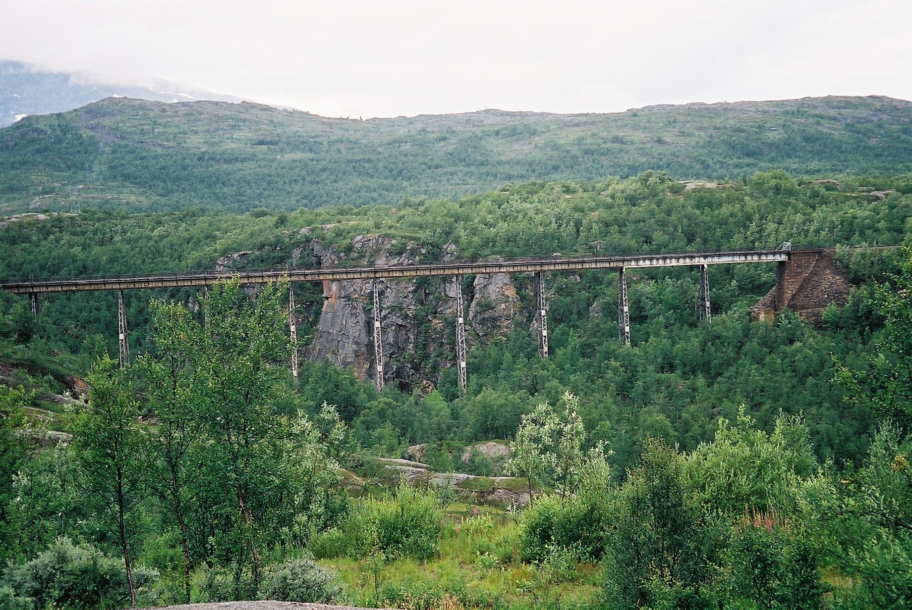 The longest bridge of the Ofotbanen Railway spans over a valley between Narvik and Riksgränsen. There was no topographic necessity for this bridge - it was built for strategic reasons since it could be destroyed easily in case of a foreign attack on Norway. However, the German attack on Norway in World War II came as a surprise. The Dynamite which had been prepared in several places along the bridge was still frozen. Only one load could be brought to explosion, enabling a relatively quick repair by the Germans (see white-coloured section at the right end of bridge). The railway track was moved Eastwards and the bridge taken out of Service in the 1990s. Ofotbanen is a section of the Malmbanen which links Lulea to Narvik; it was built for transportation of the iron ore from Kiruna in Sweden to the Norwegian harbour of Narvik. Picture taken by myself, Eckhard Pecher, in July 2005. Mention of my name is not required in the Wikis.